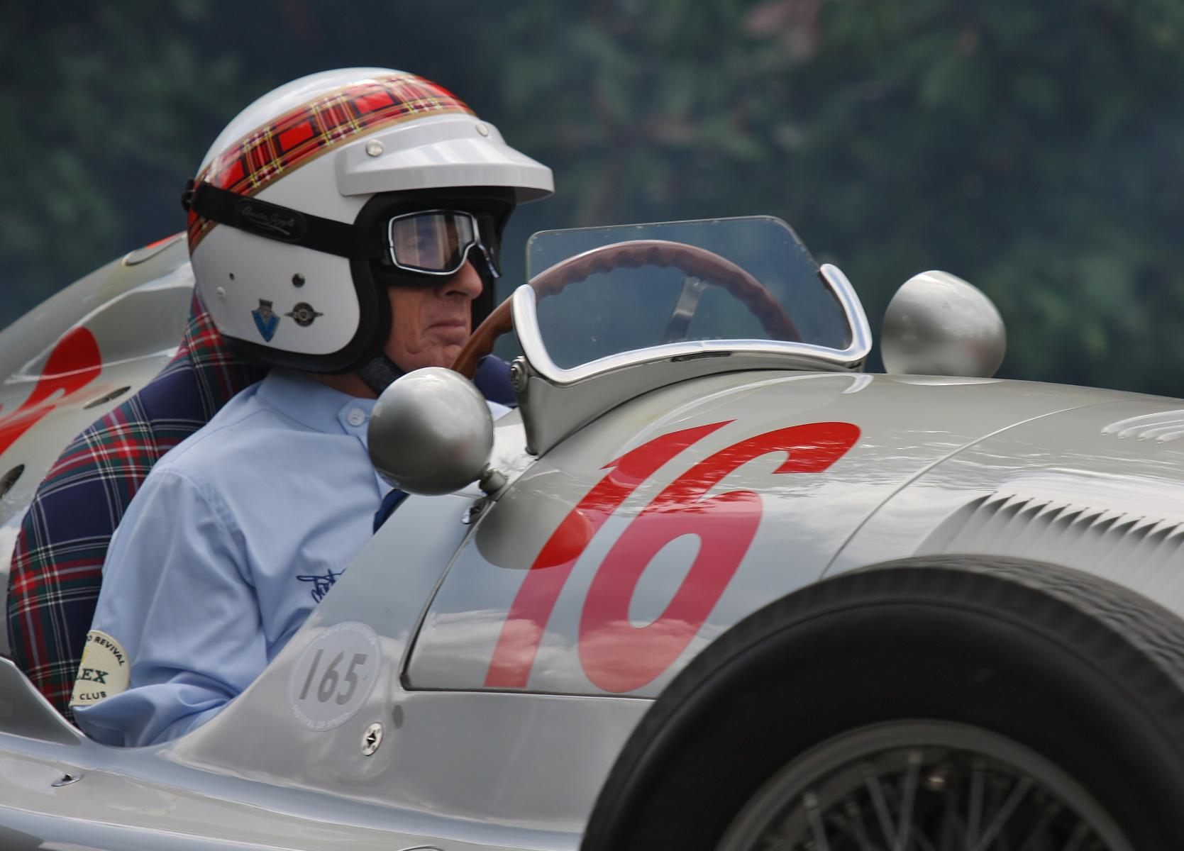 Jackie Stewart drives the Mercedes-Benz W165 at the 2014 Goodwood Festival of Speed.